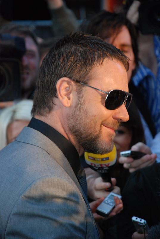 Russell Crowe at the State of Play premiere in London.